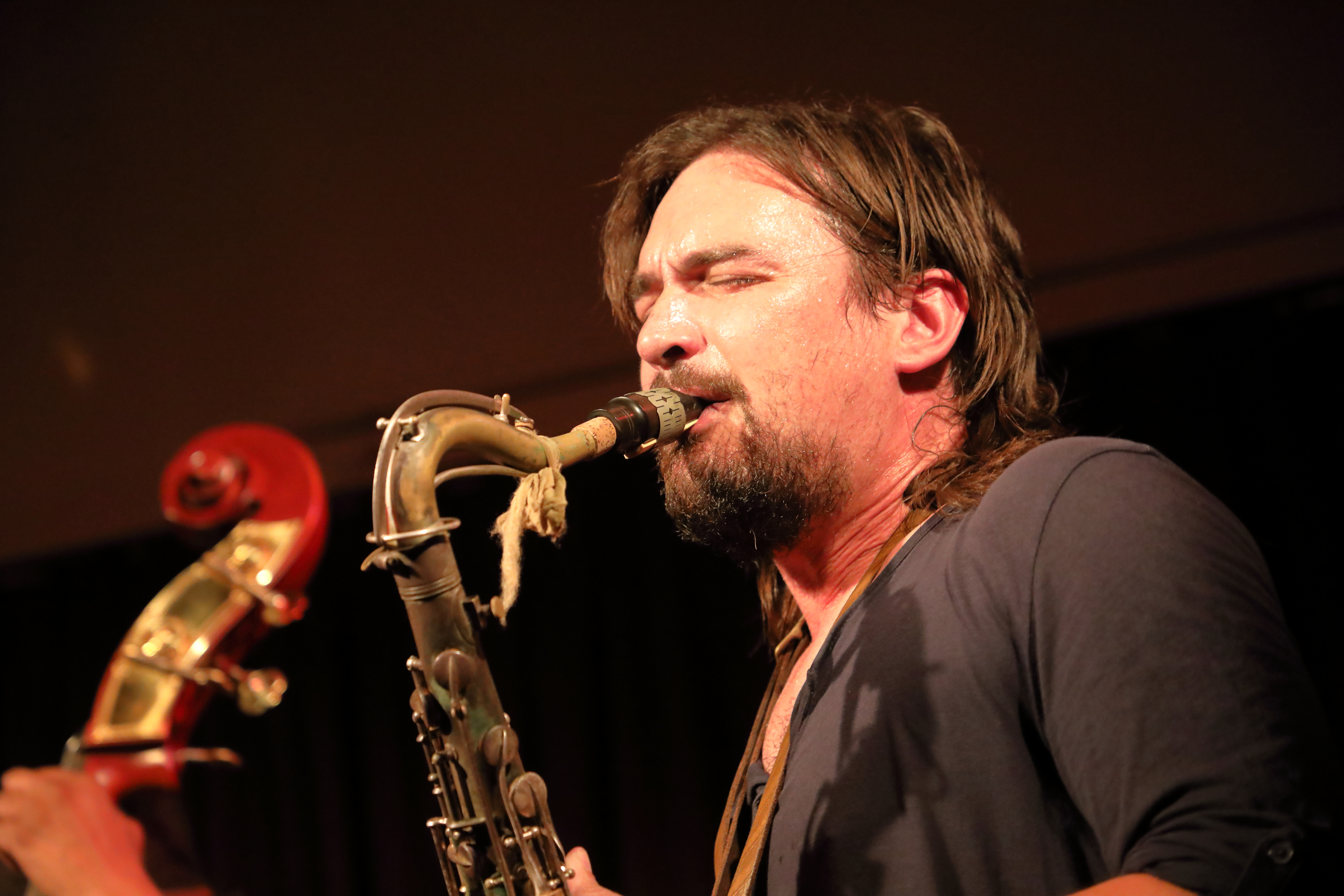 Saxophone player John Dikeman from the US with Hamid Drake and William Parker at Club W71, Weikersheim.